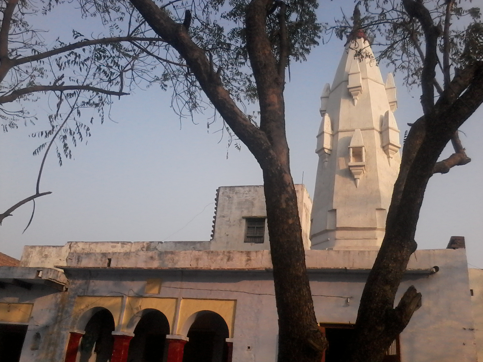 popular temple among bhidauni village